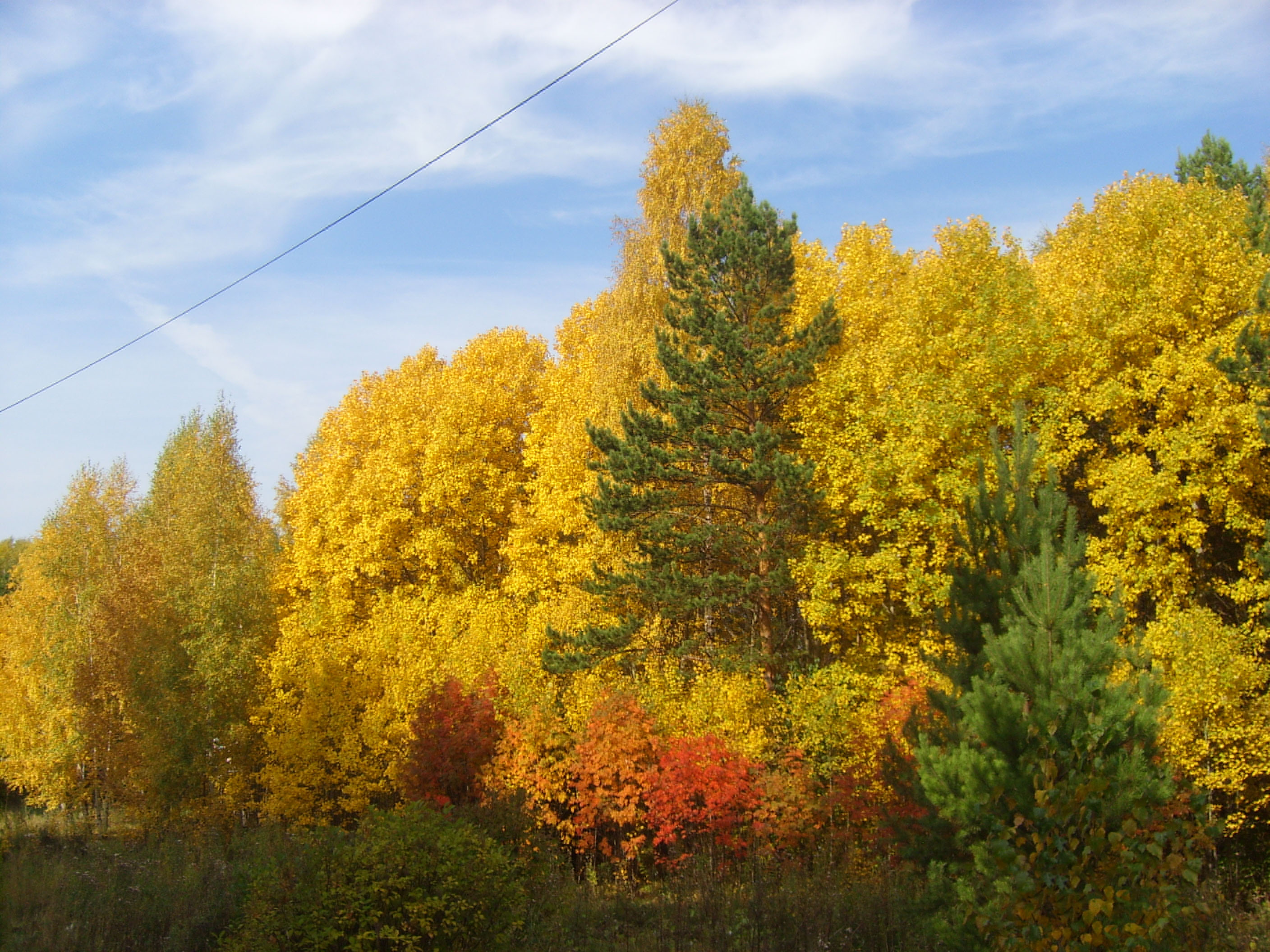 forest